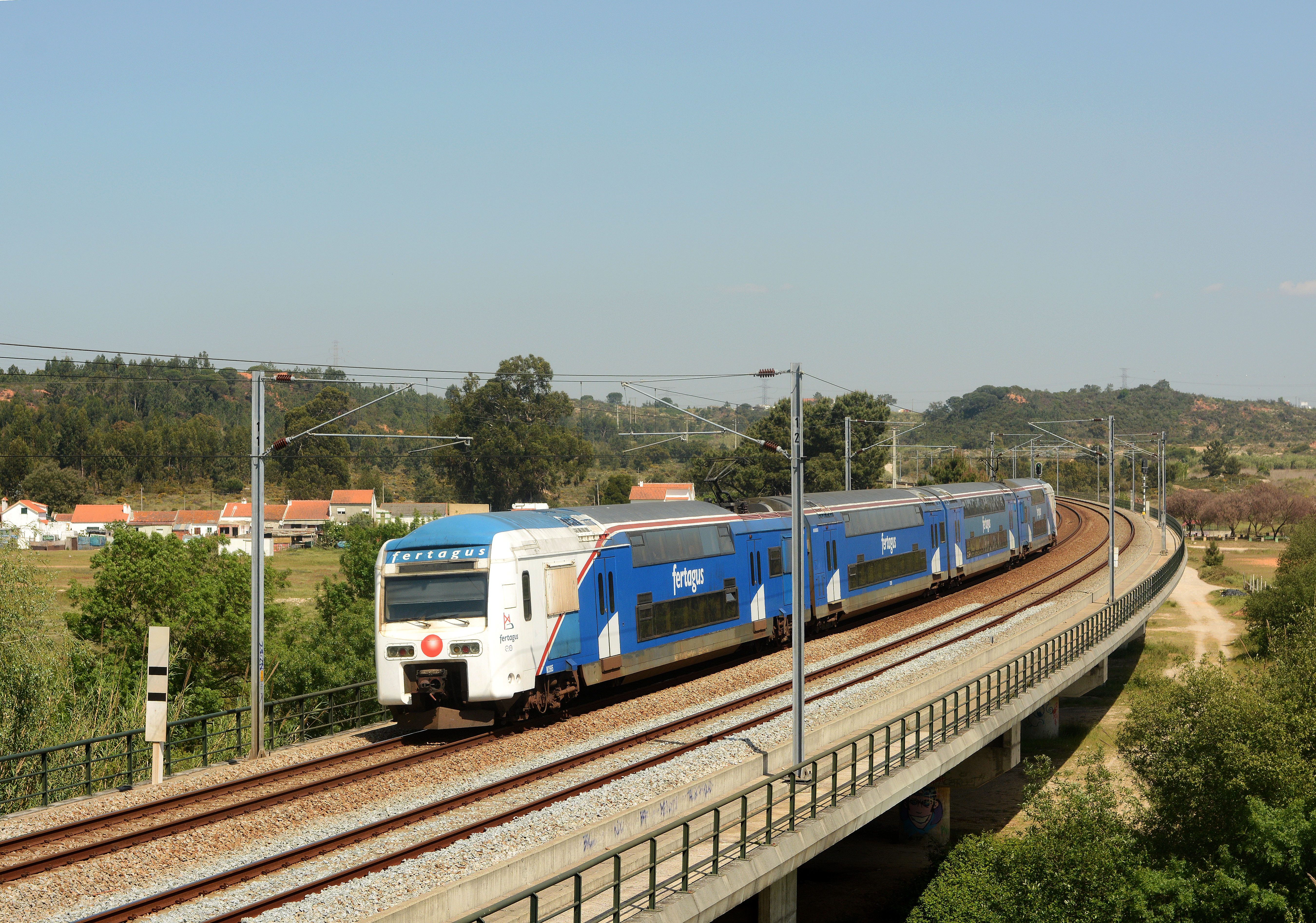 Fertagus suburban train (train type 3500) on Linha do Sul railway line close to Coina, Portugal